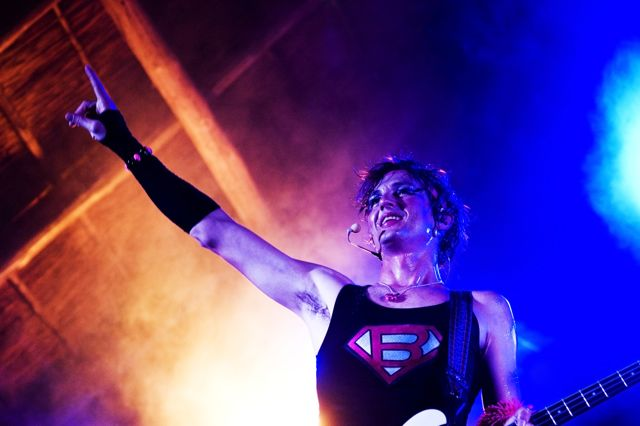 Chris Chameleon onstage with Boo!